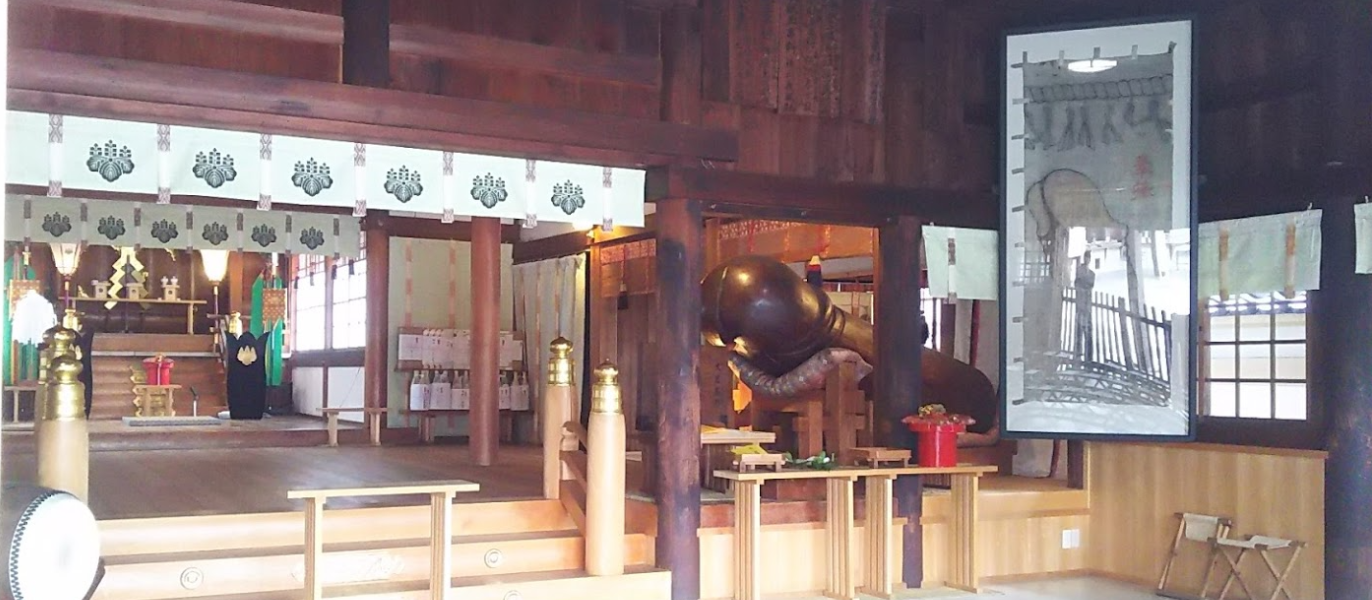 The sacred wooden phallus of Tagata Jinja